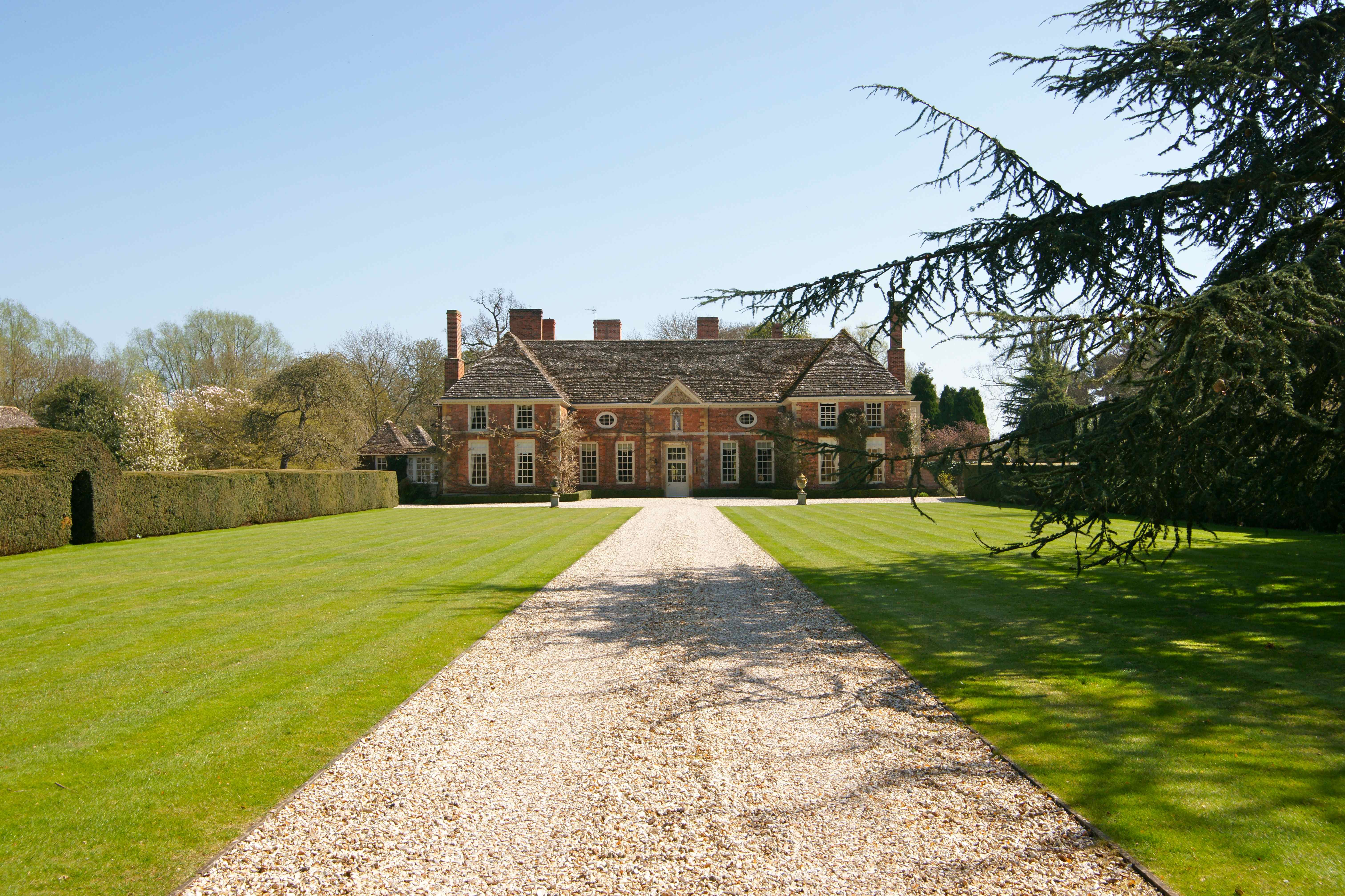 Clifford Chambers Manor. The current manor house dates from around the late 17th century although there were earlier buildings on the site. It has been remodelled over the years, notably by Edwin Lutyens and looks to be in excellent condition.